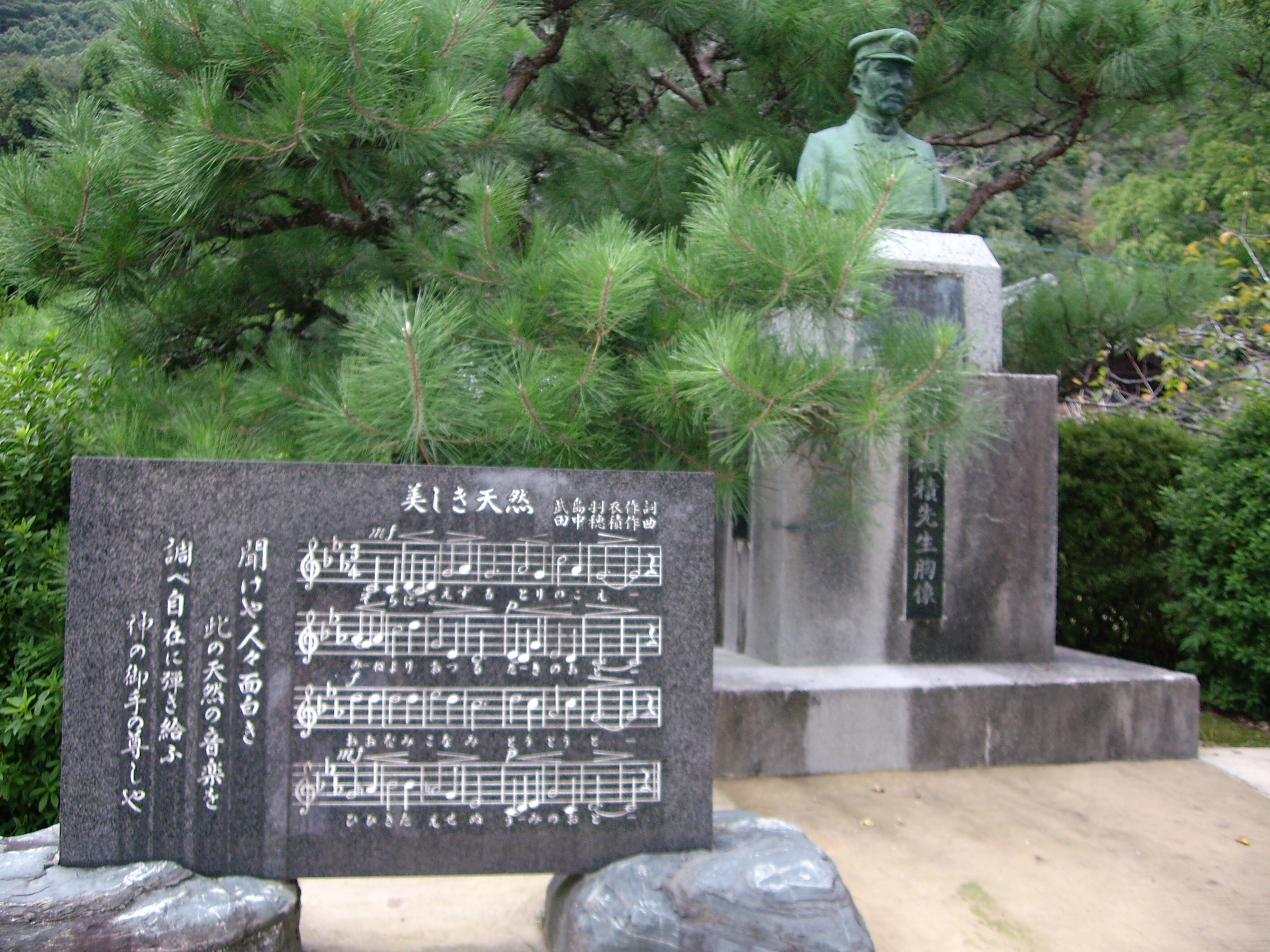 Bust of Hozumi Tanaka and monument of his song in Kikko Park, Iwakuni city.